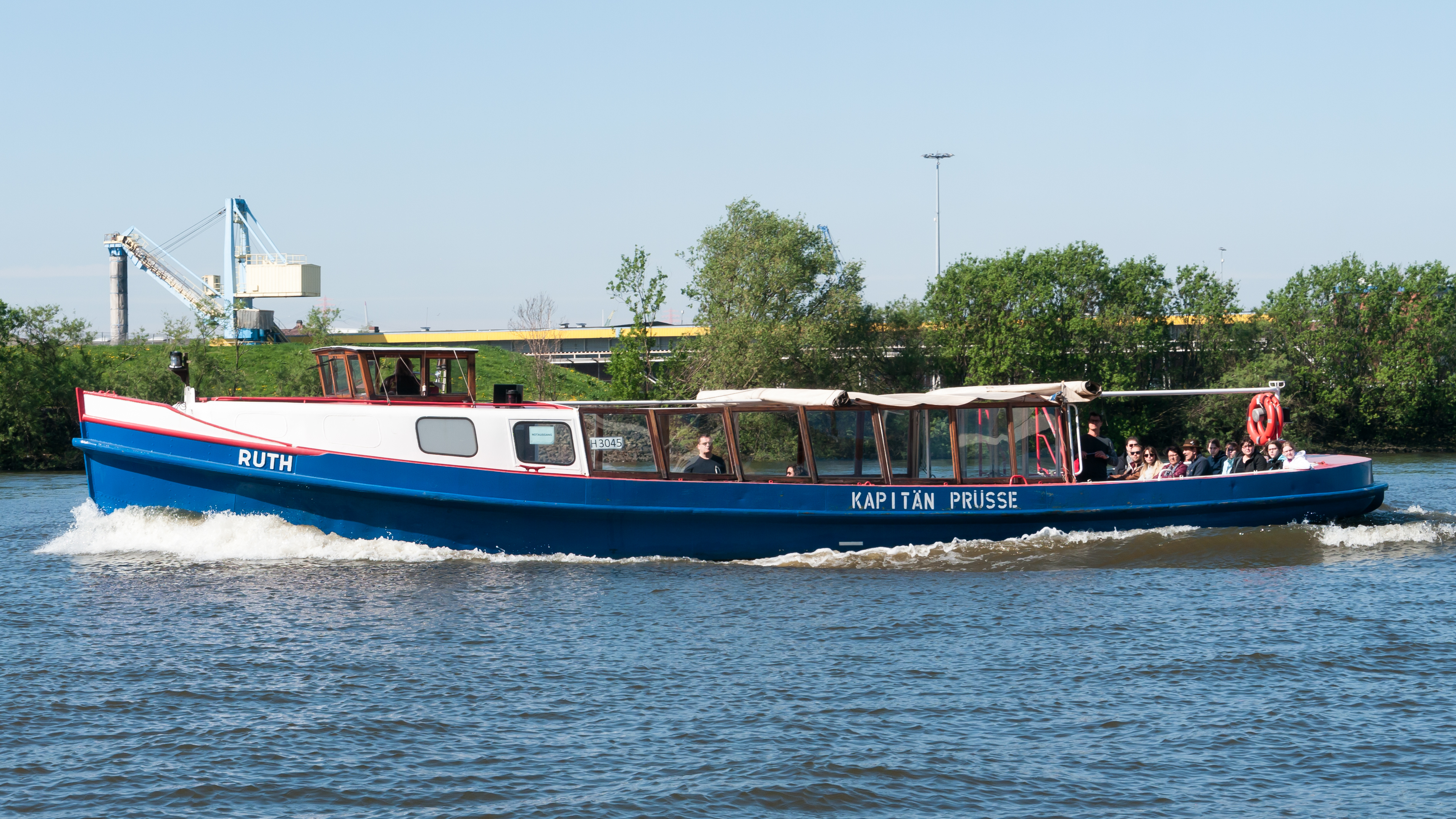 Barkasse Ruth in Hamburg 2019